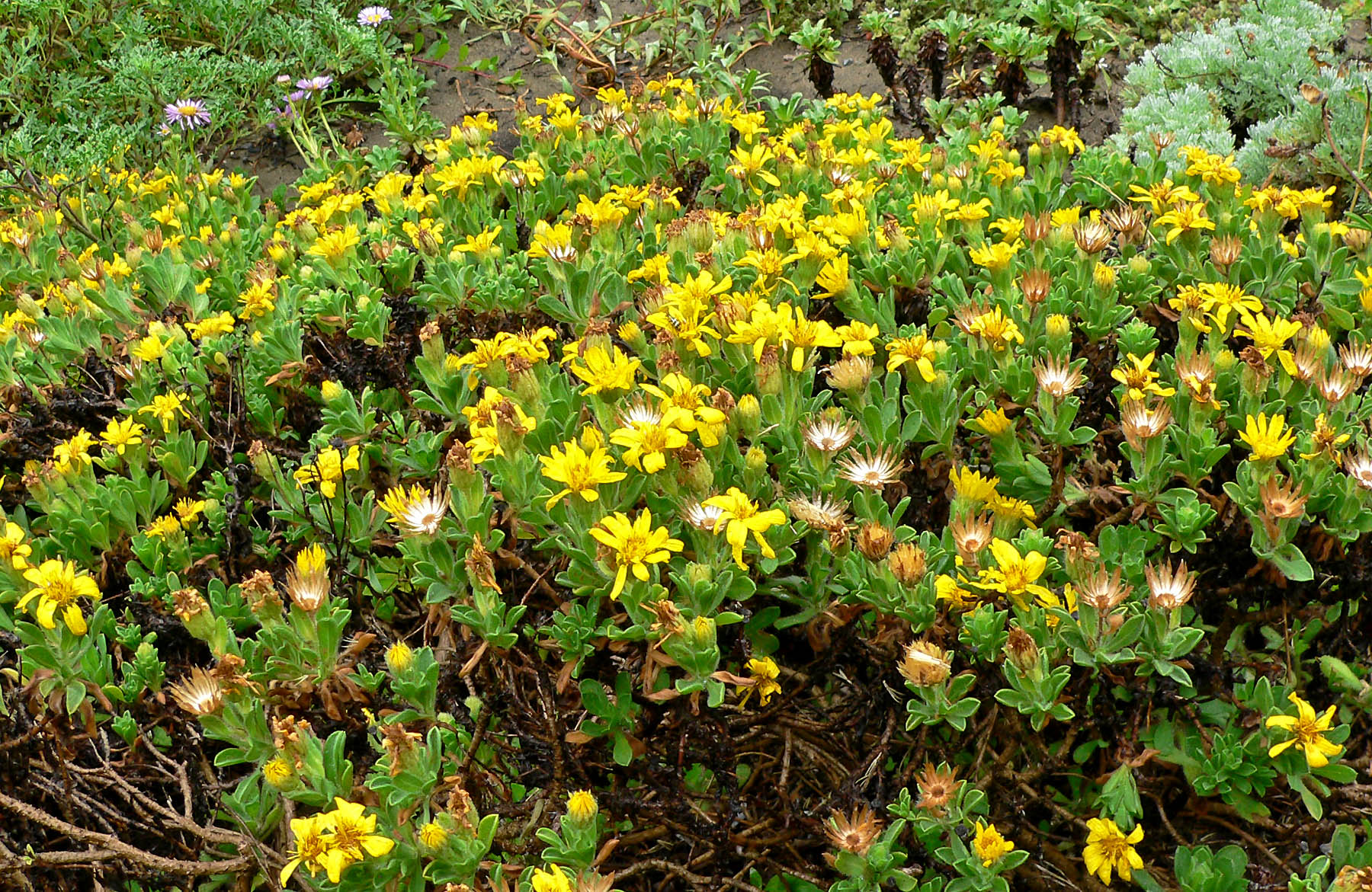 Photo of Heterotheca sessiliflora ssp. bolanderi at the Regional Parks Botanic Garden